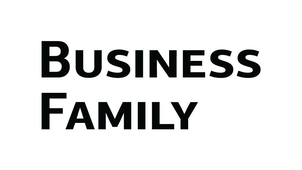 Original logo (inversed colors)